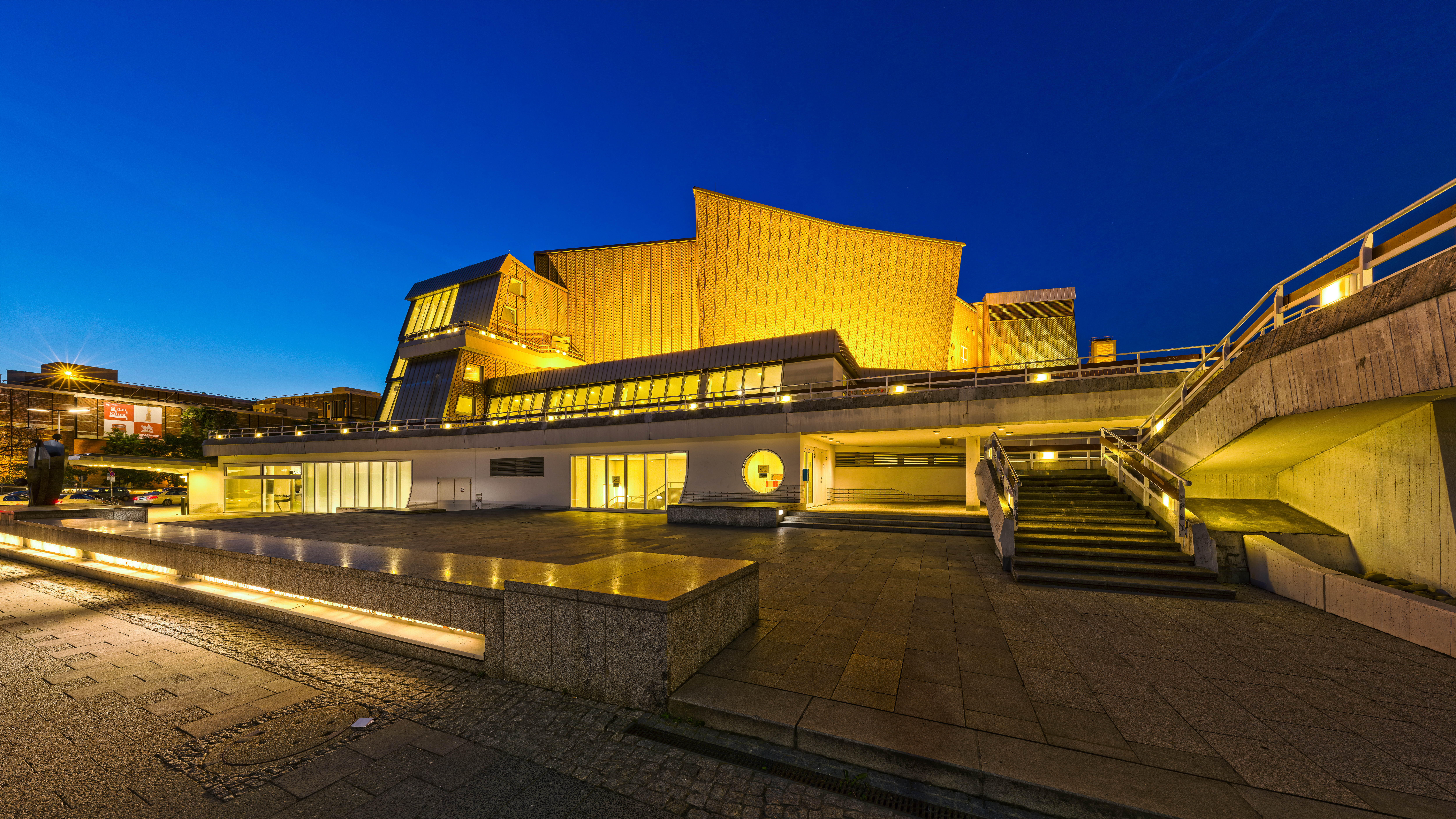 Blue hour shot of the south west facade of Berliner Philharmonie.